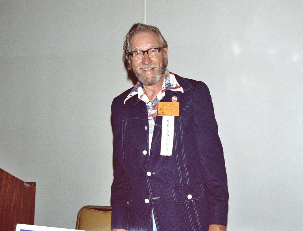 Katy Keene artist Bill Woggon (1911-2003). The plate on his chest has text "San Diego Comic-Con". depicted person: Bill Woggon (age: 71)